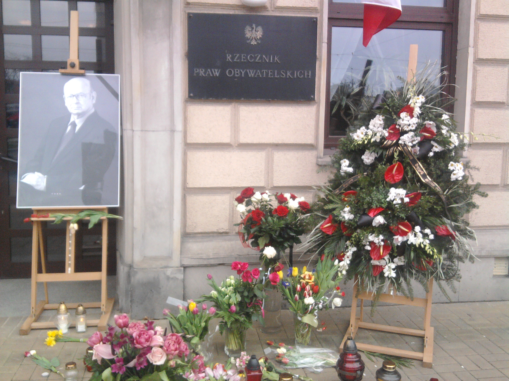 Candles and flowers in front of Ombudsman's Office in Warsaw.